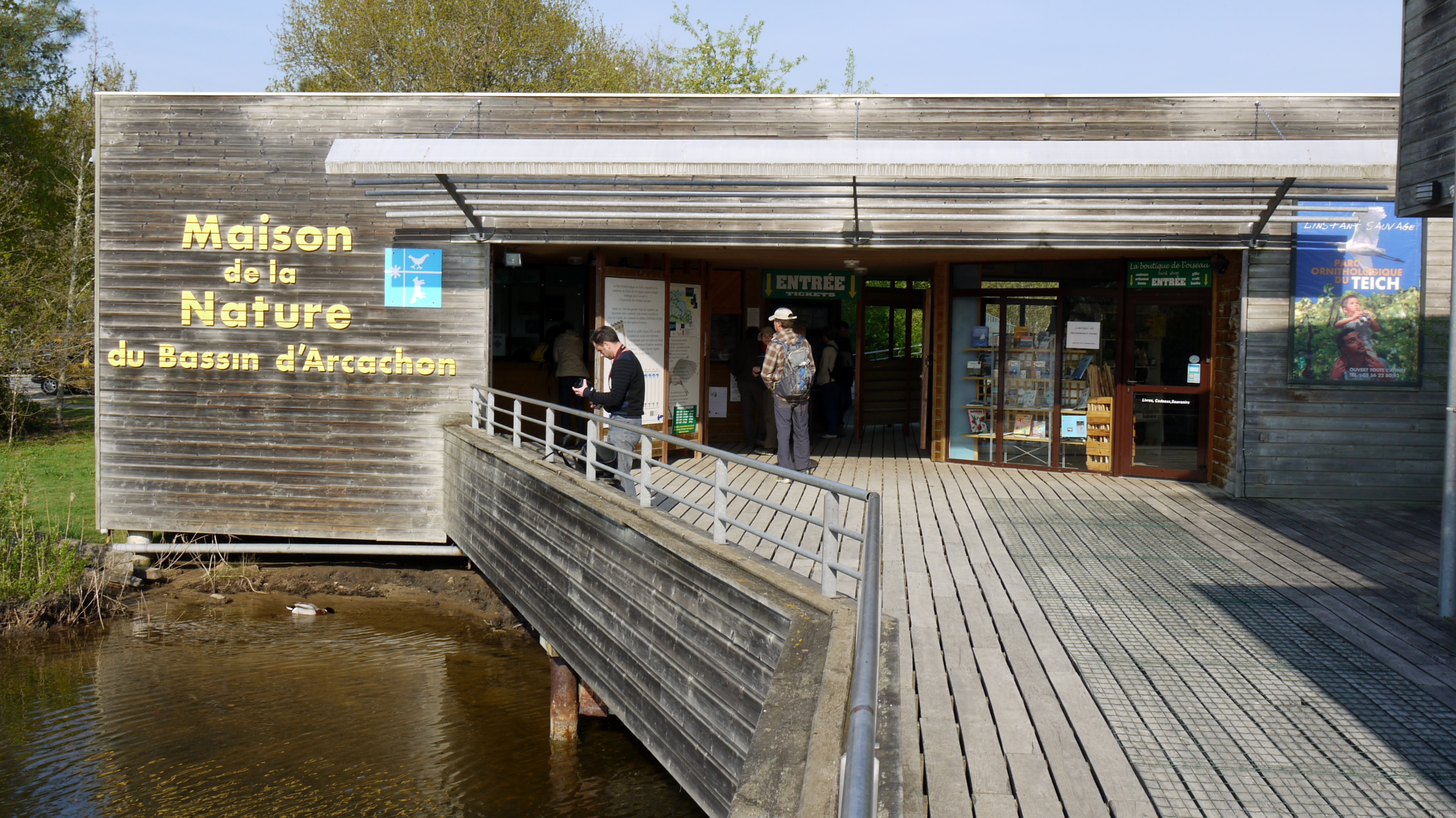 Parc Ornithologique du Teich, Gironde, France